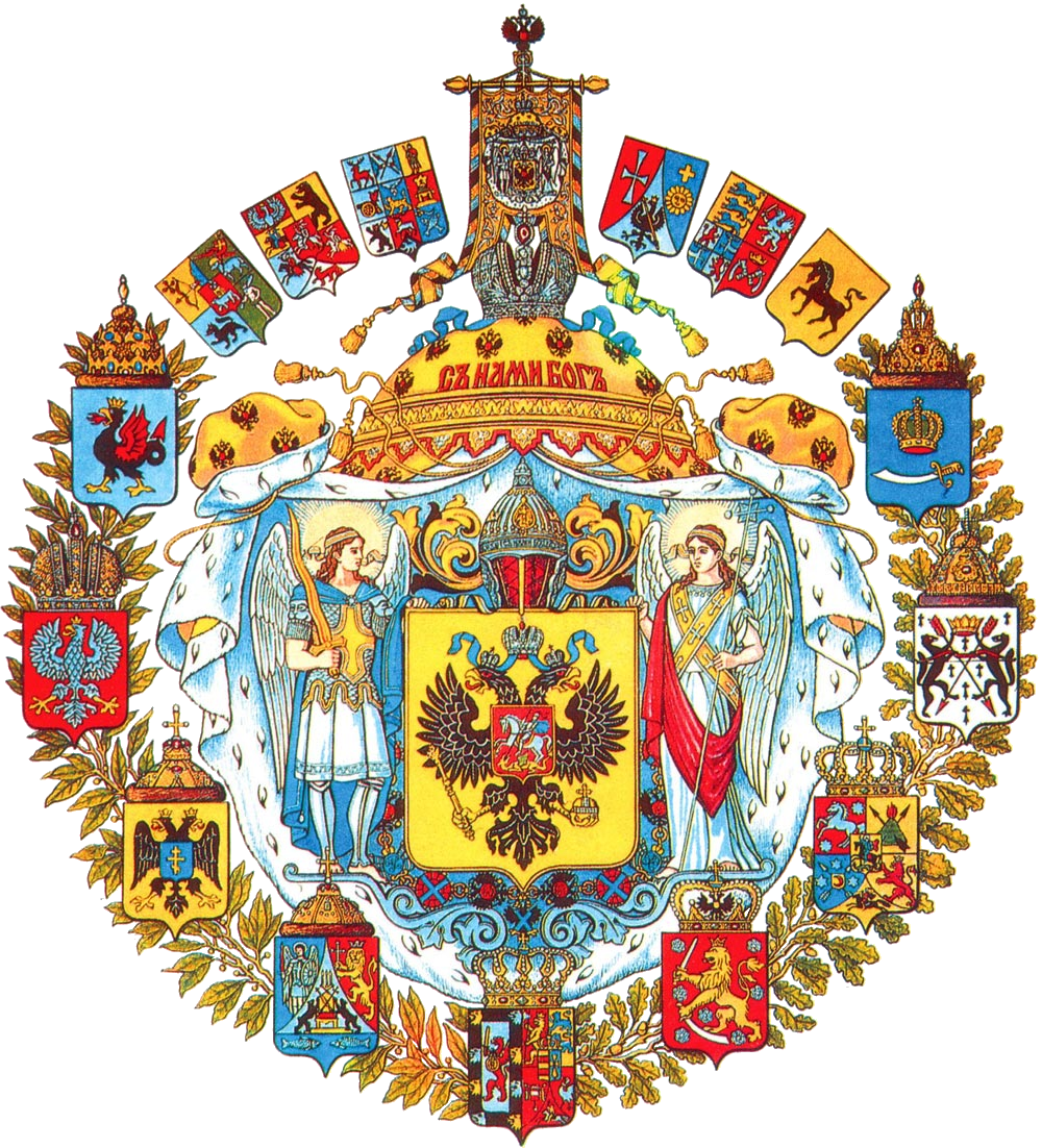 Greater Coat of Arms of the Russian Empire (1882 – 1917).